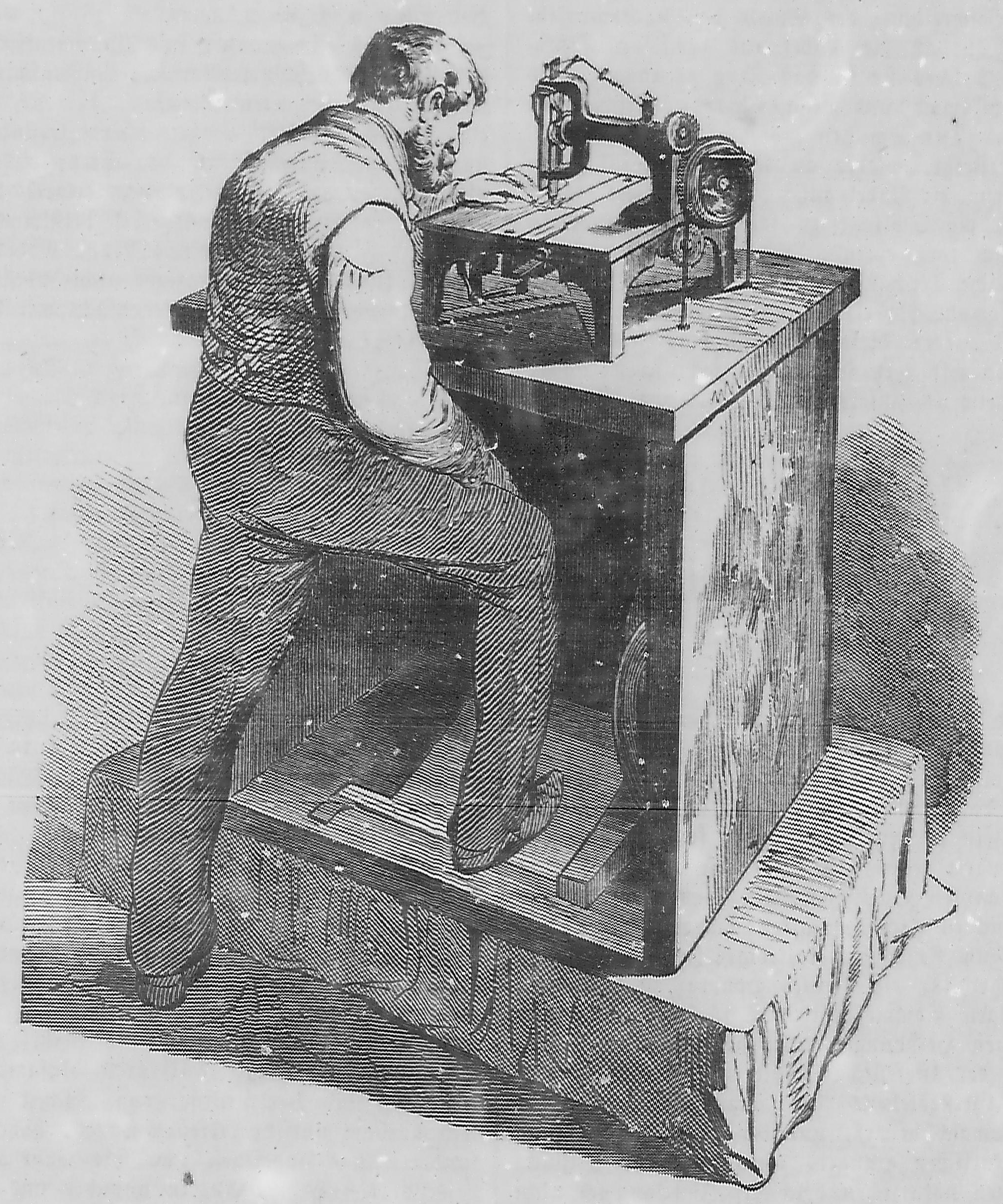 caption: "Die Nähmaschine"